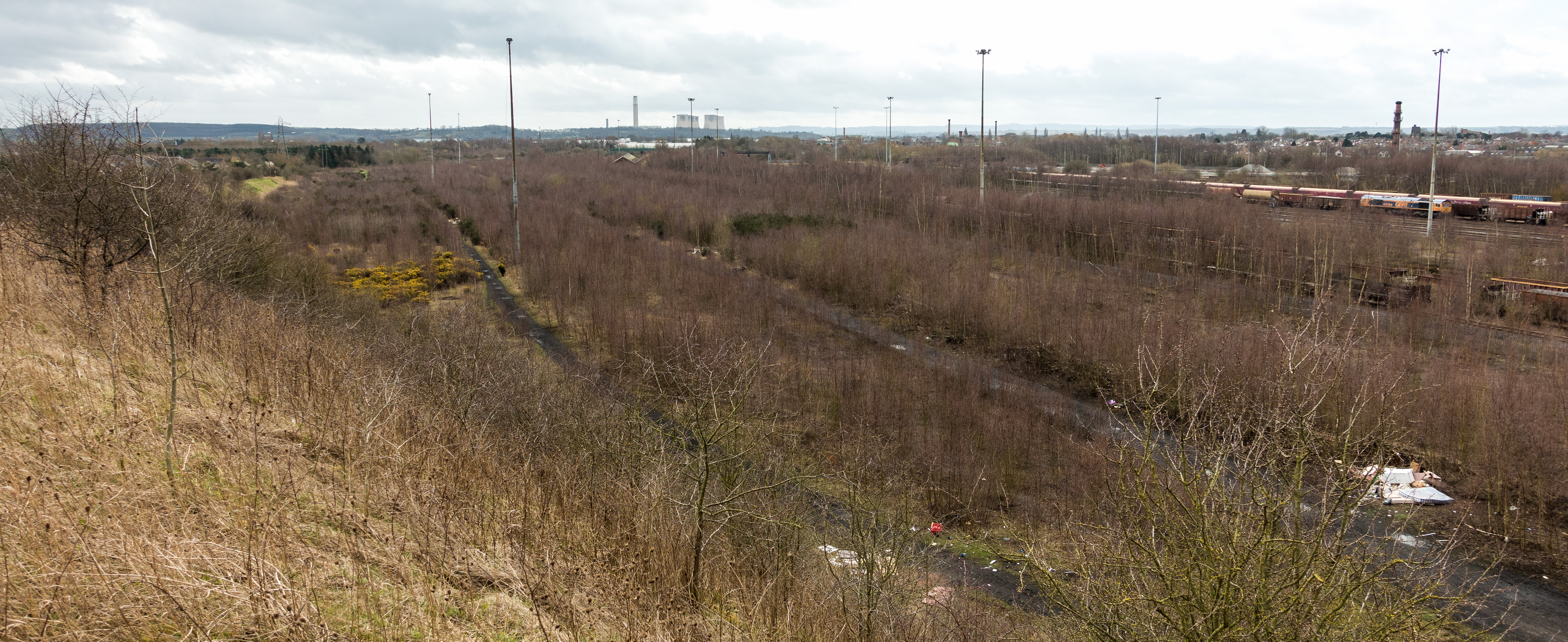 The "Up" railway sidings and the site of the marshalling yard at Toton, March 2016. Proposed site for the HS2 "East Midlands Hub".